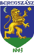 Coat of arms of Berehove, Ukraine.